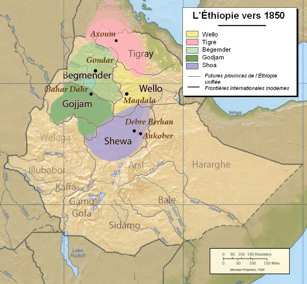 Ethiopia around 1850